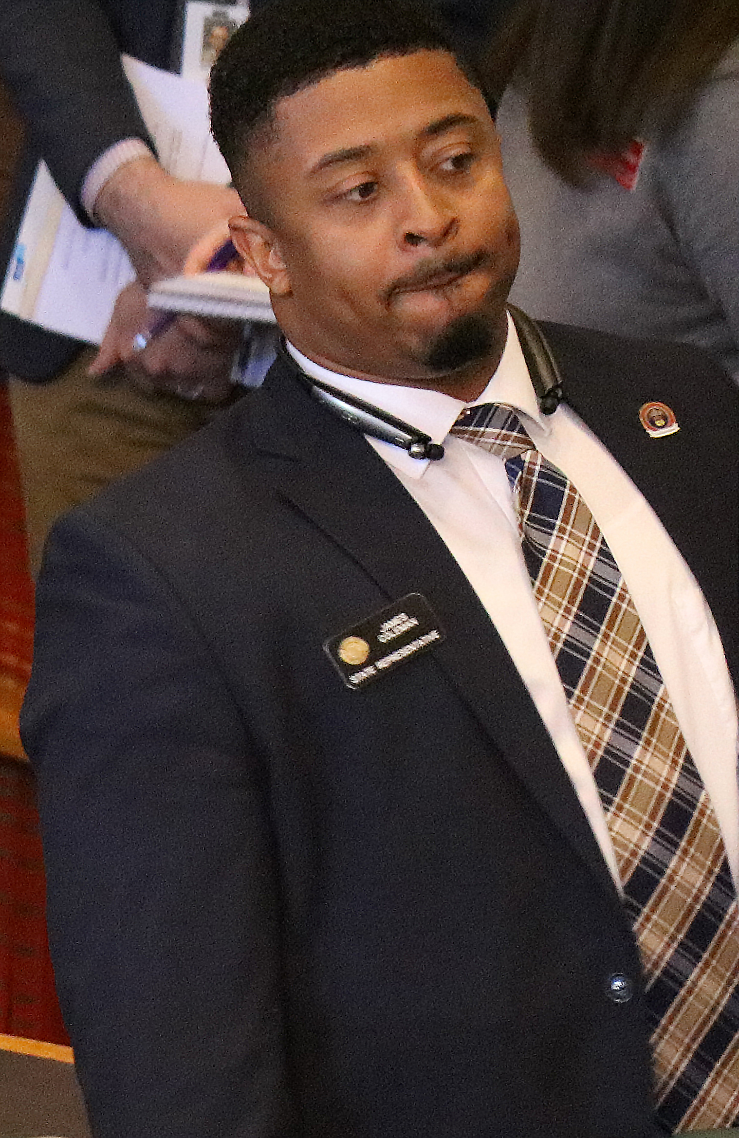 James Coleman, a politician from Colorado.